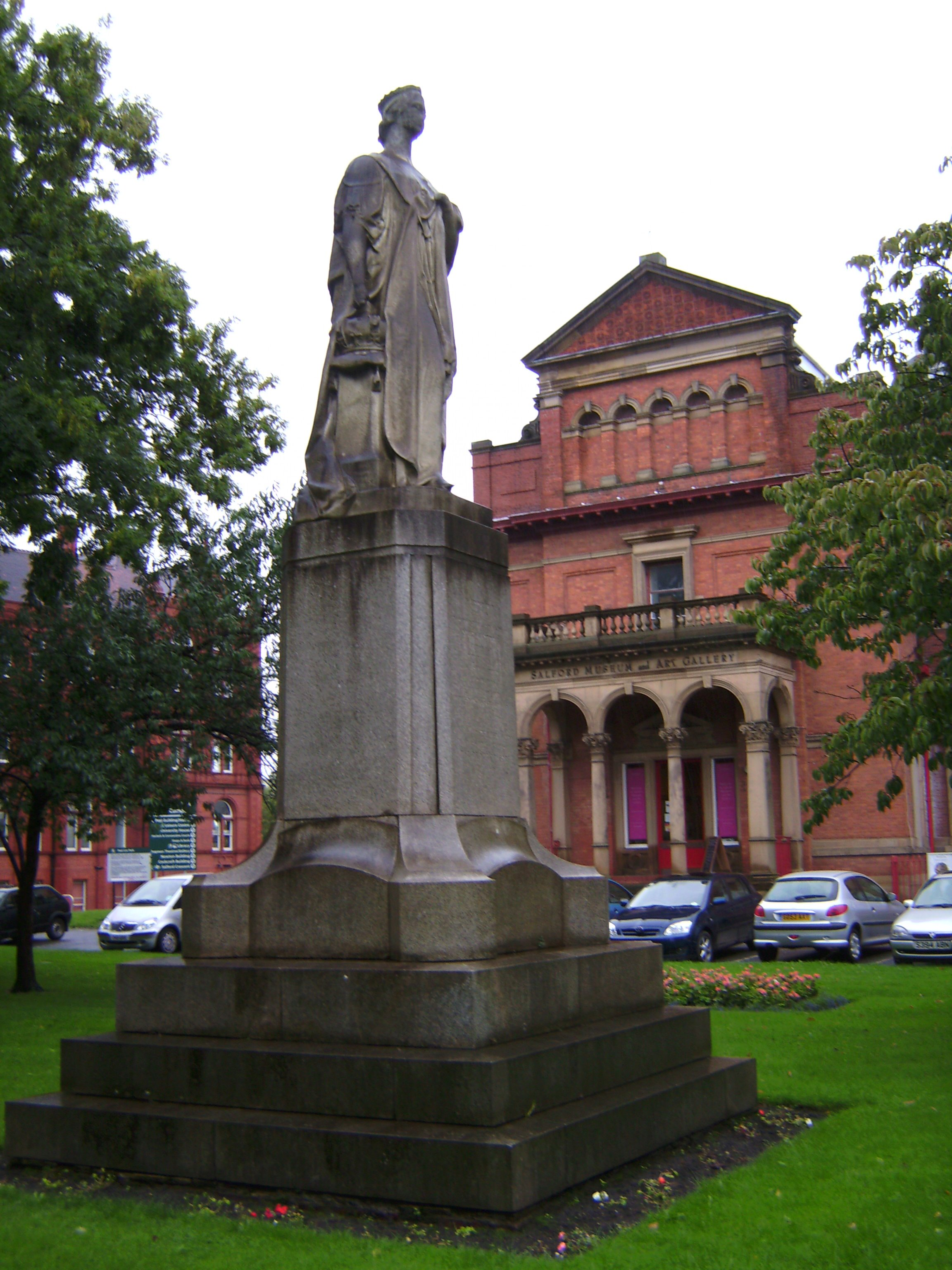 Statue to commemorate Queen Victoria's 1851 visit to Salford. The inscription reads: To commemorate the visit of her most gracious majesty Queen Victoria to this park on October 10th 1851 and her reception by more than eighty thousand Sunday school teachers and scholars Inaugurated by the Prince Consort May 6th 1857